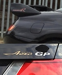 Rear detailing of a Mitsubishi FTO Aero Series model, showing side fin and boot logos as a conjoined image.